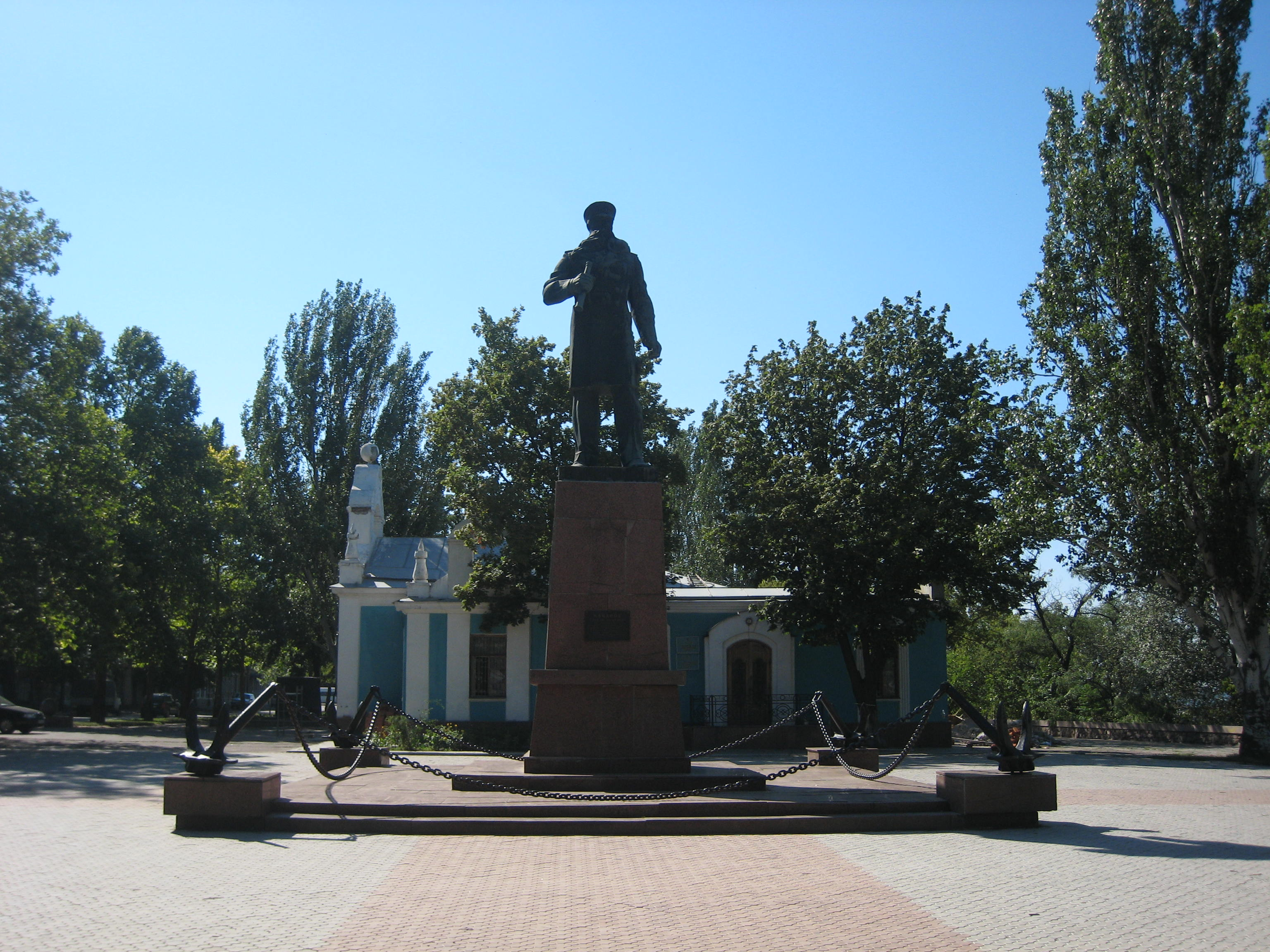 Monument to Stepan Makarov in Mykolaiv, Ukraine.